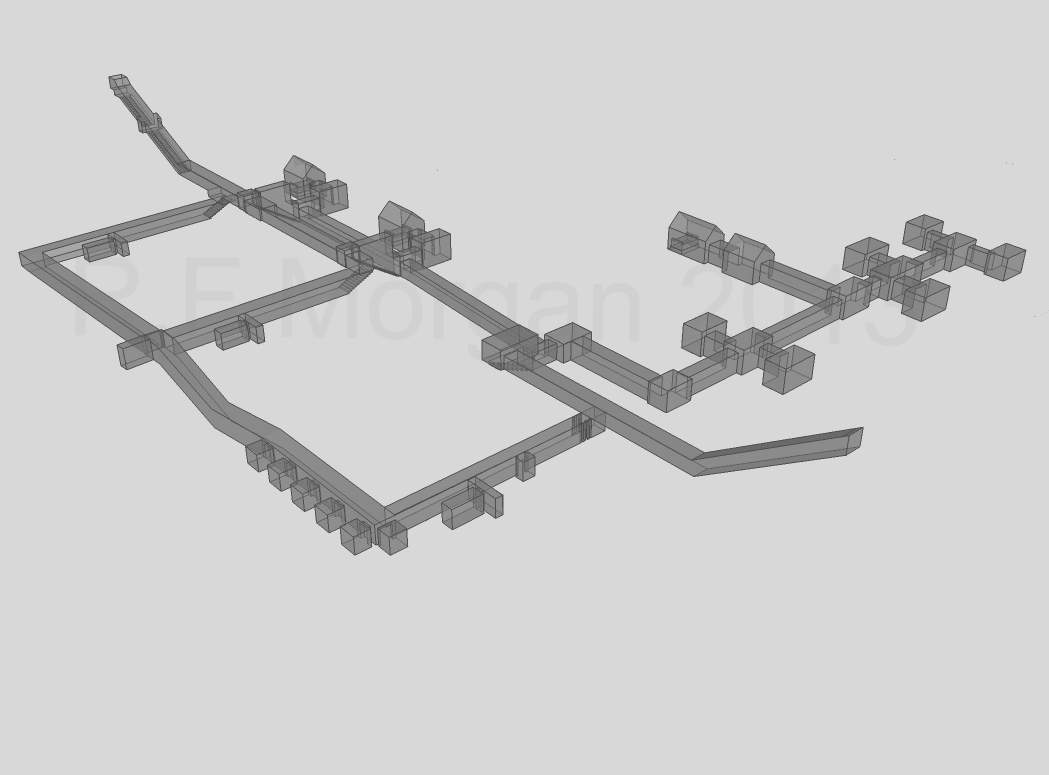 Underground chambers of Amenemhet III's pyramid at Dashur, taken from a 3d model